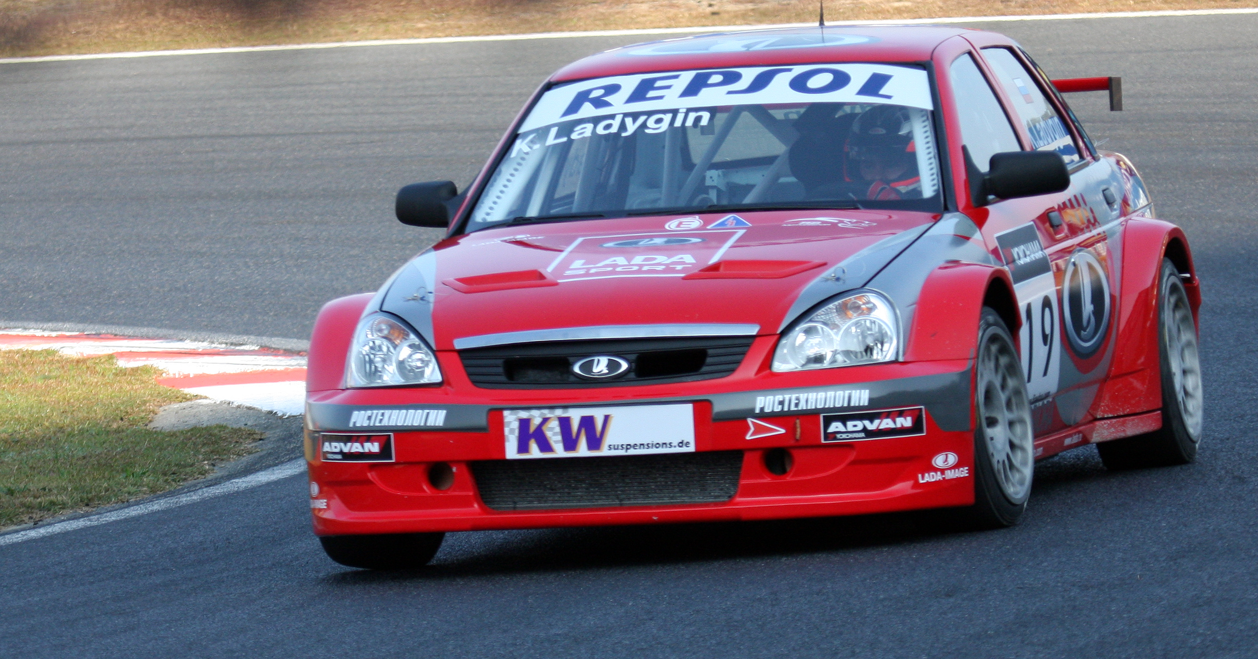 World Touring Car Championship 2009 Race of Japan: Kirill Ladygin (LADA Sport) at free practice.